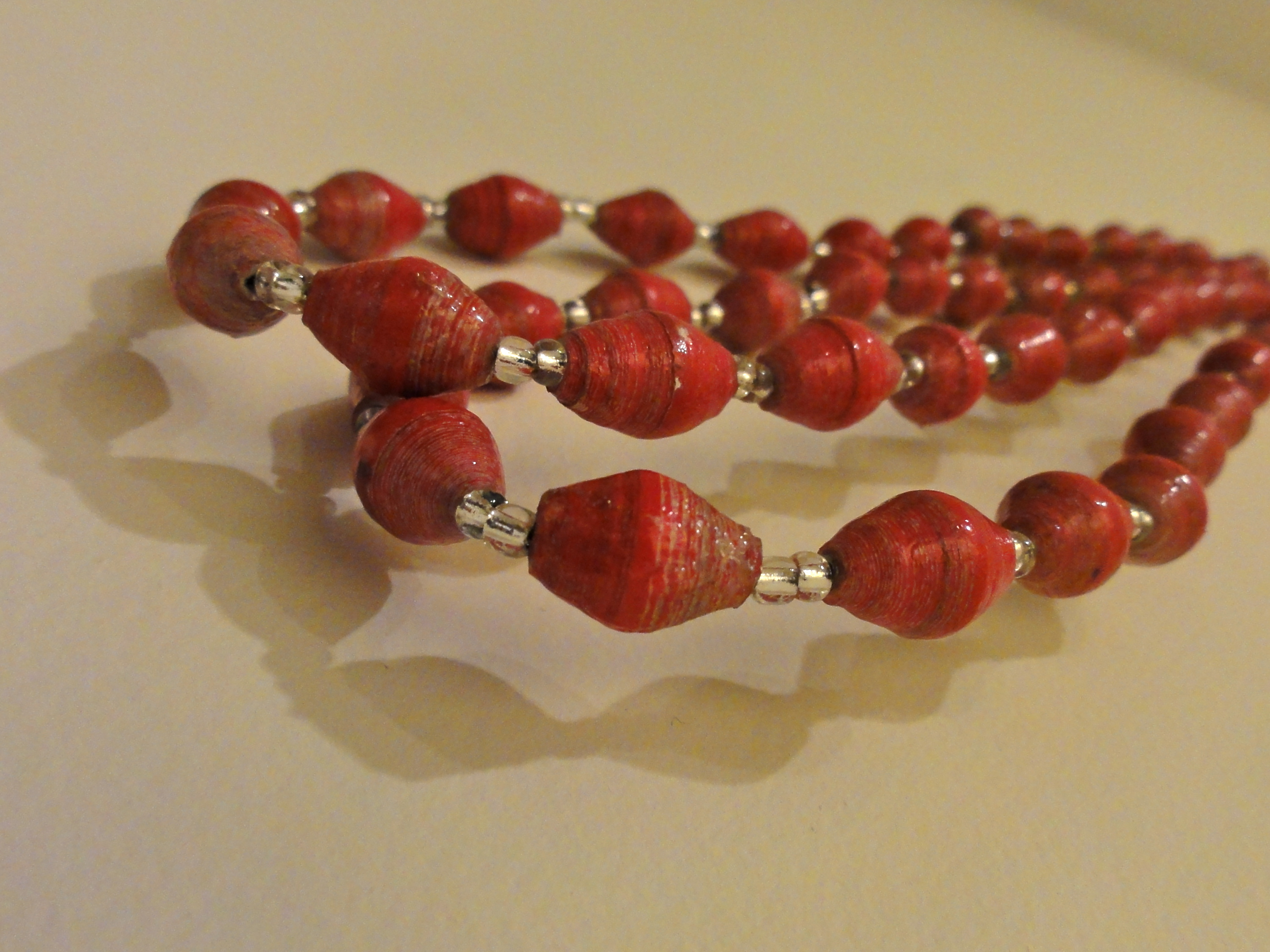 Paper to Pearls necklaces are individually made pieces. The paper beads are covered with an acrylic finish that makes them waterproof and durable.